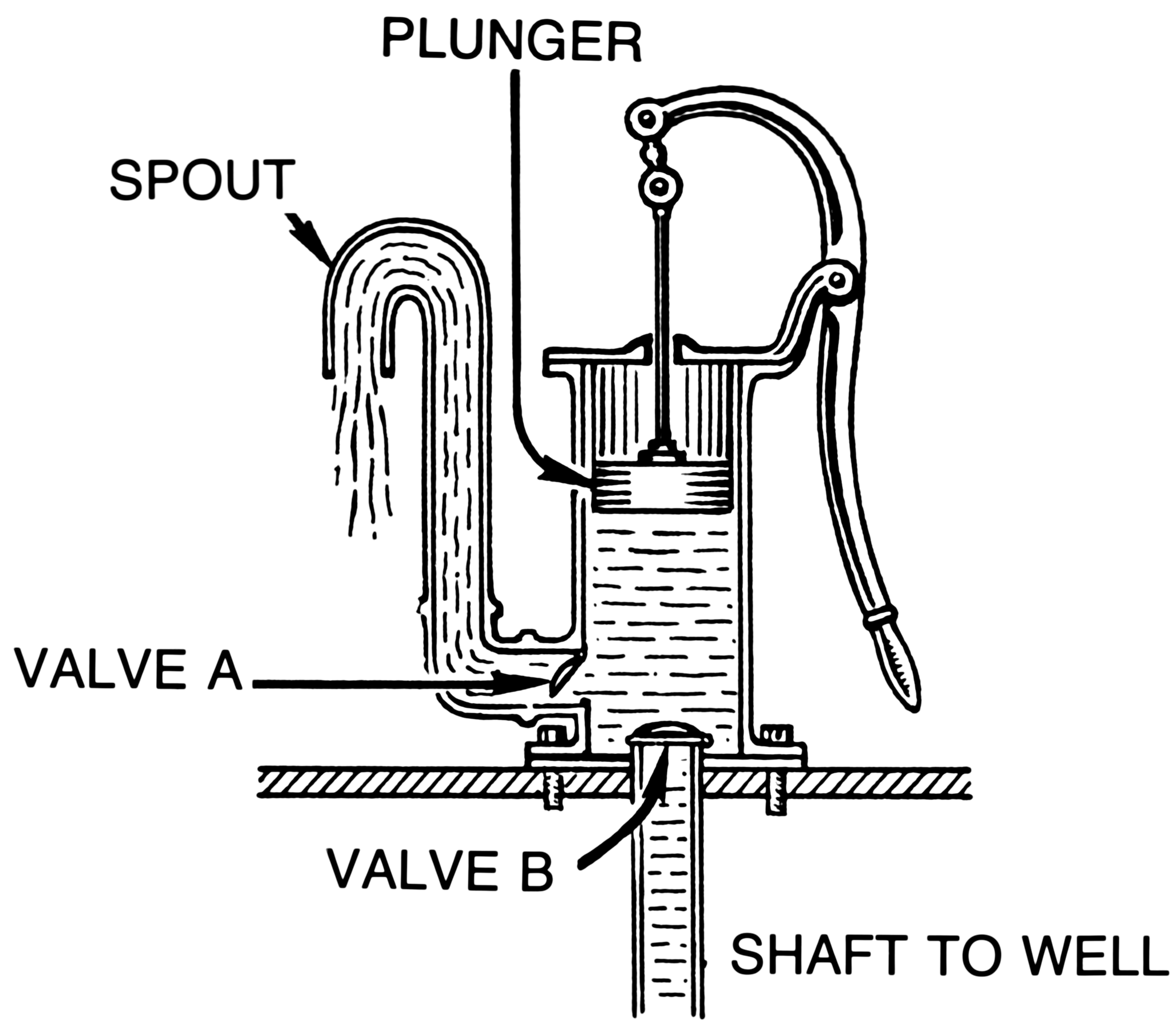 Line art drawing of Piston water pump.